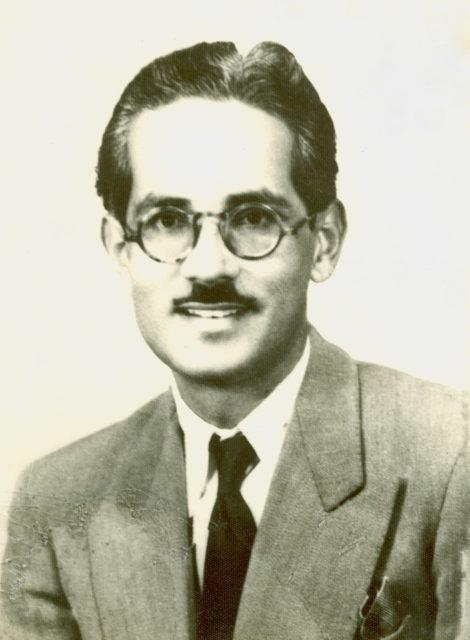 Profile picture of Mr. Badrudin Ahmed